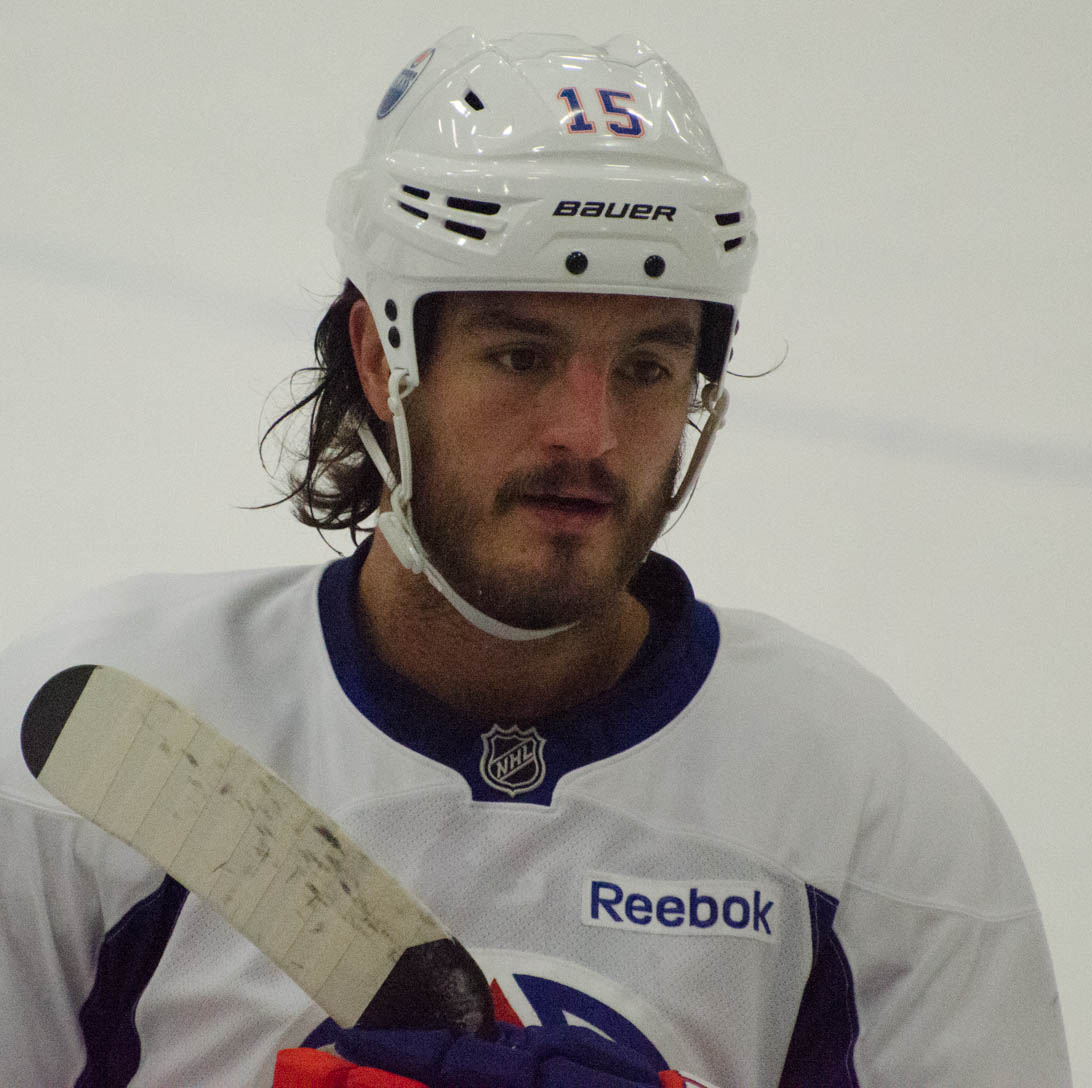 Kevin Westgarth at an Edmonton Oilers practice, Sept. 27, 2014